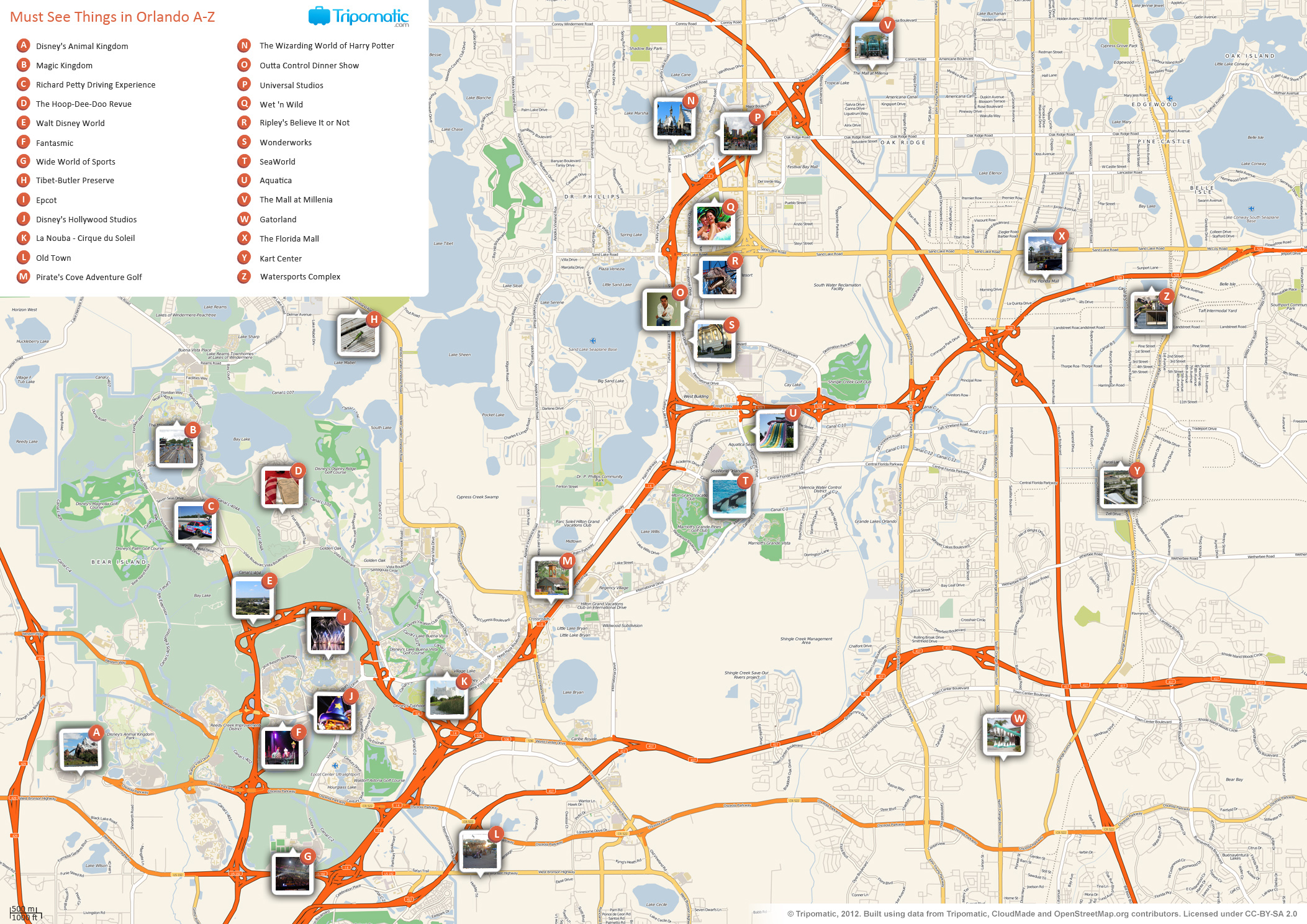 Printable tourist map showing the main attractions of Orlando